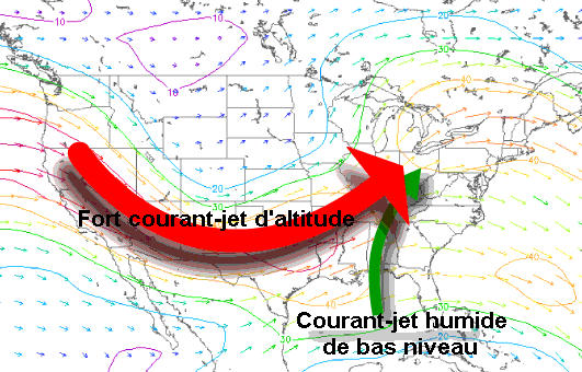 Upper-air patterns during the Super Outbreak of April 3-4, 1974. French version of this NOAA's National Weather Service Regional Office image